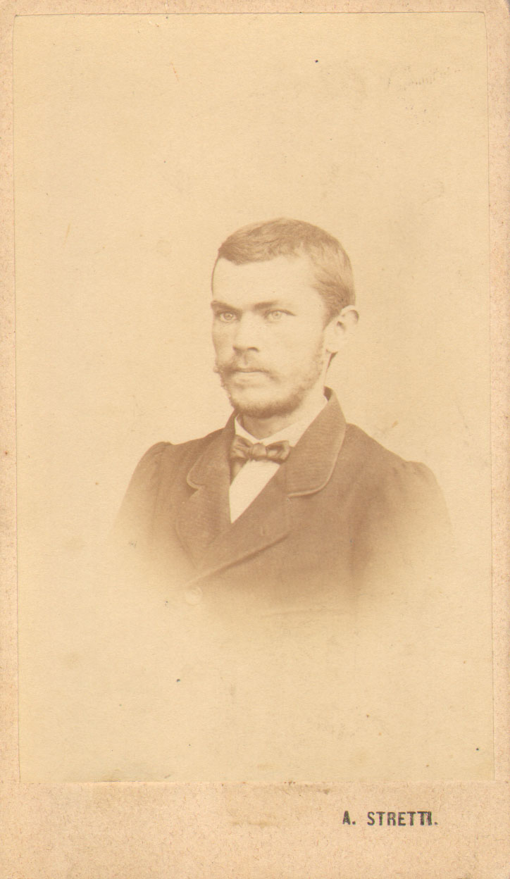 Damjan Pavlović, Serbian engineer, poet, translator and theater critic. Srpski (latinica): Damjan Pavlović, inženjer, pesnik, prevodilac i pozorišni kritičar.